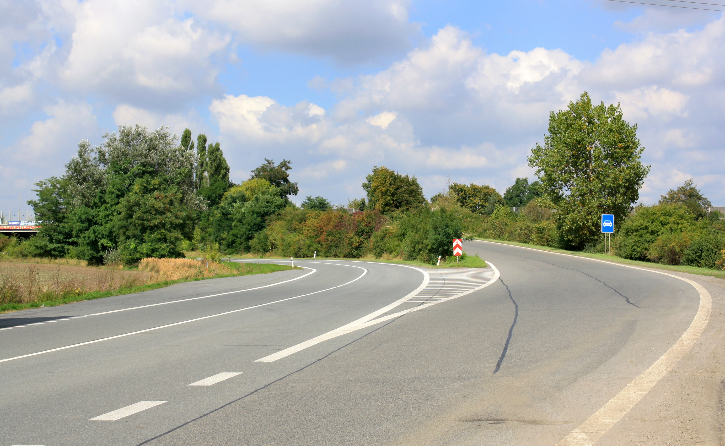 Road No 38 by Nepřevázka village, Czech Republic